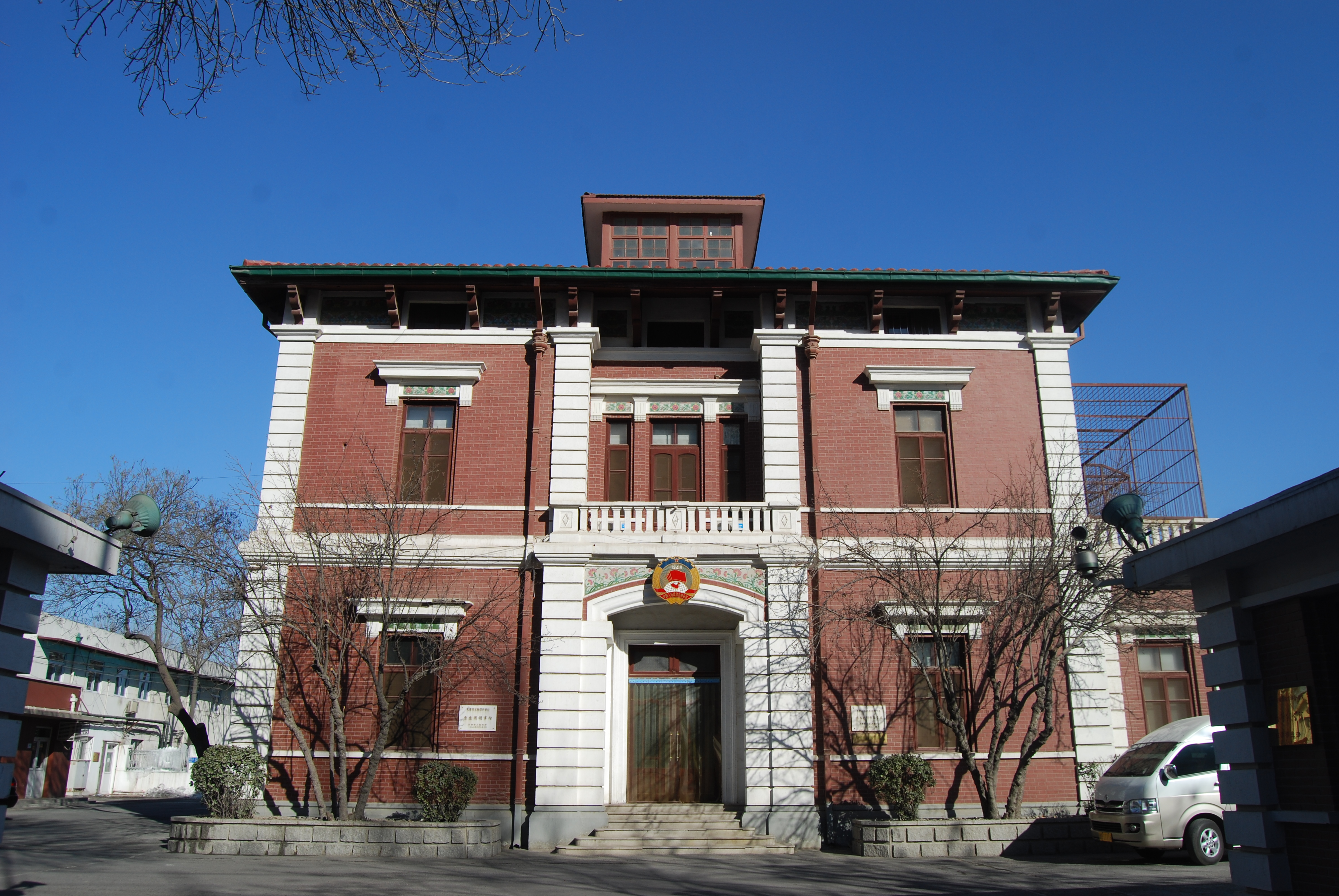 Former Italian consulate in Jianguo Dao No. 52, Hebei District, Tianjin